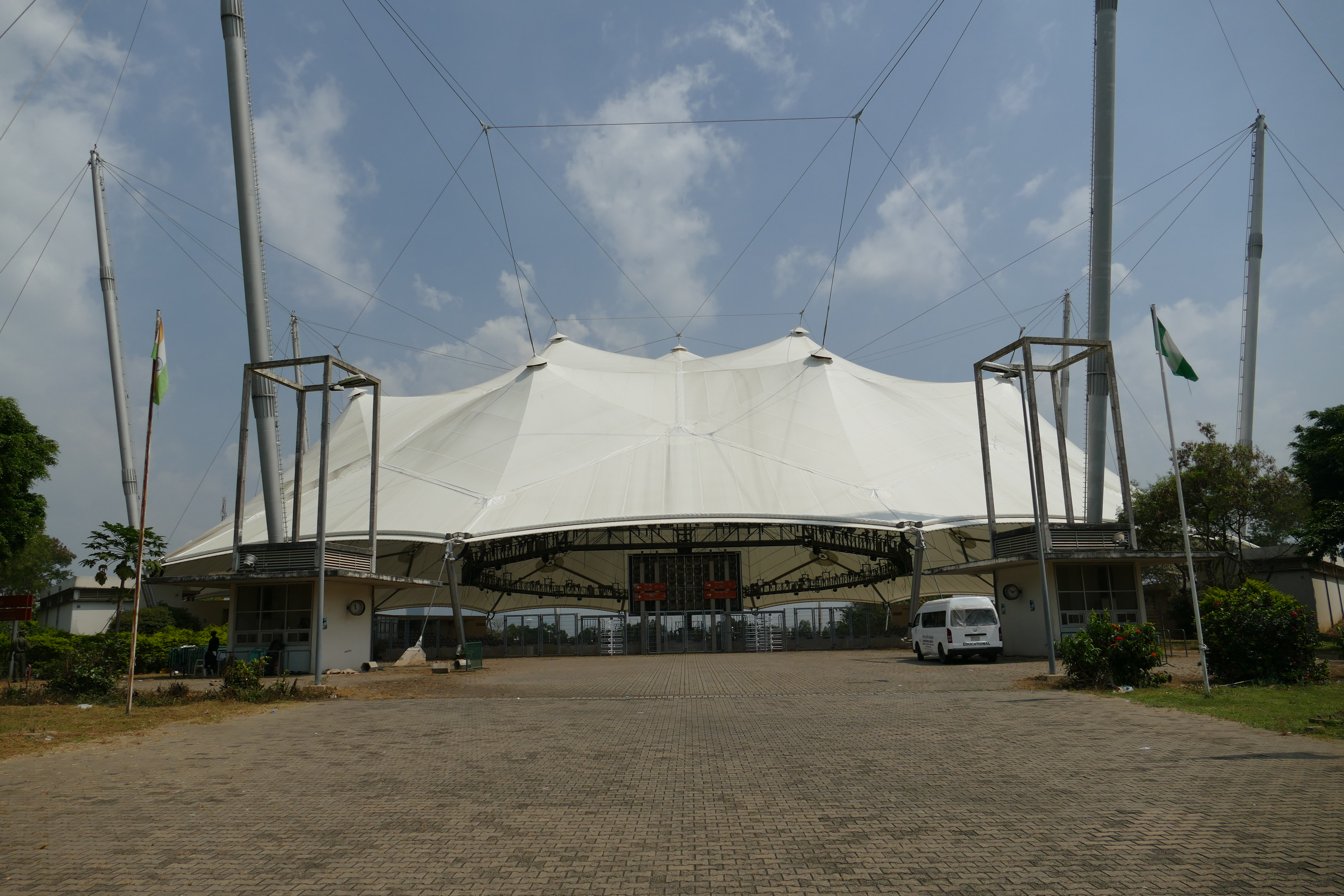 The Abuja Velodrome